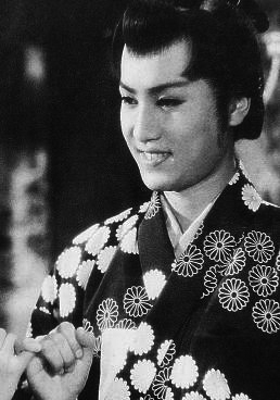 Raizō Ichikawa VIII (1932–97) in Shin-Shokoku Monogatari: Fuefuki Dōji (Tōei, 1954)